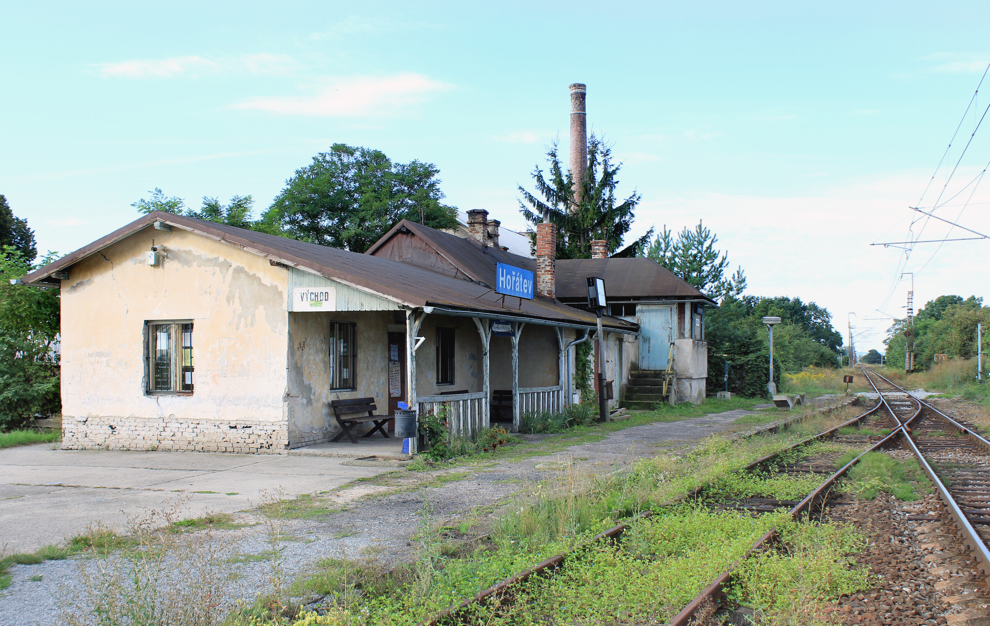 Train stop in Hořátev, Czech Republic.